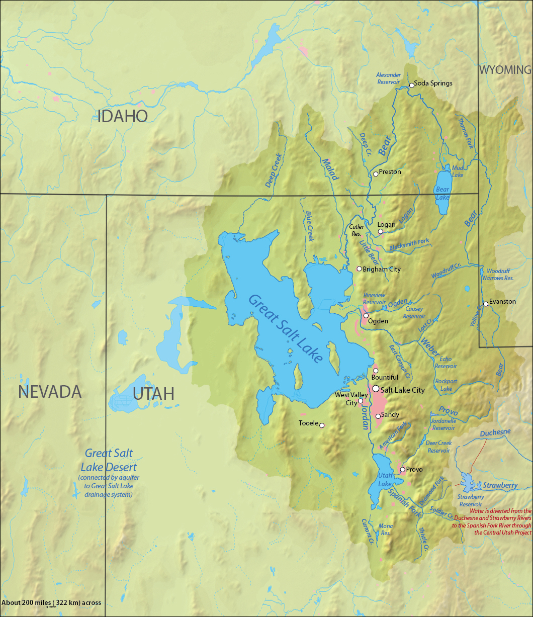 Map of the Great Salt Lake drainage area